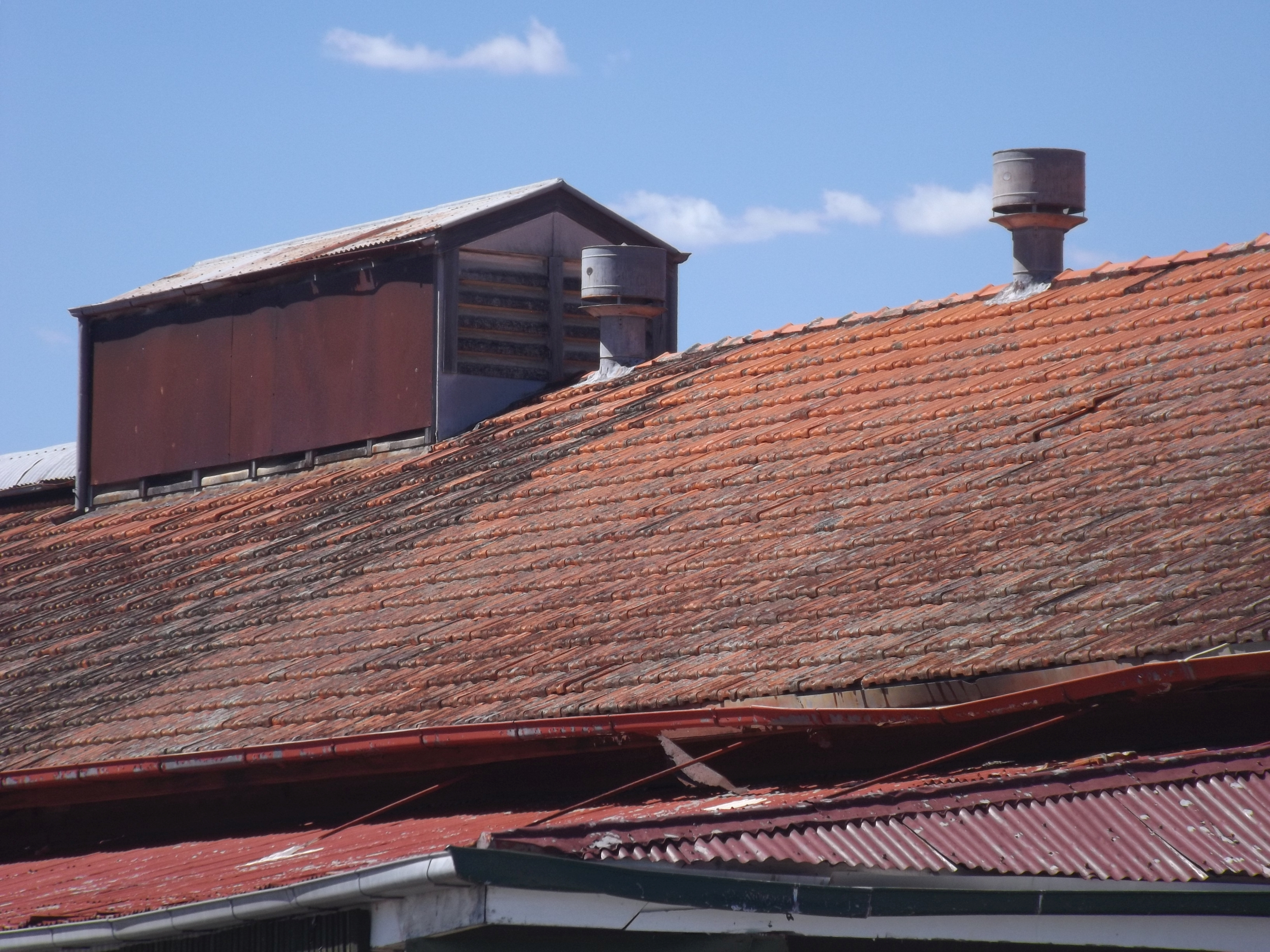 Photo of the rooftop of the Boonah Butter Factory at Boonah, Scenic Rim Region, Queensland, Australia.